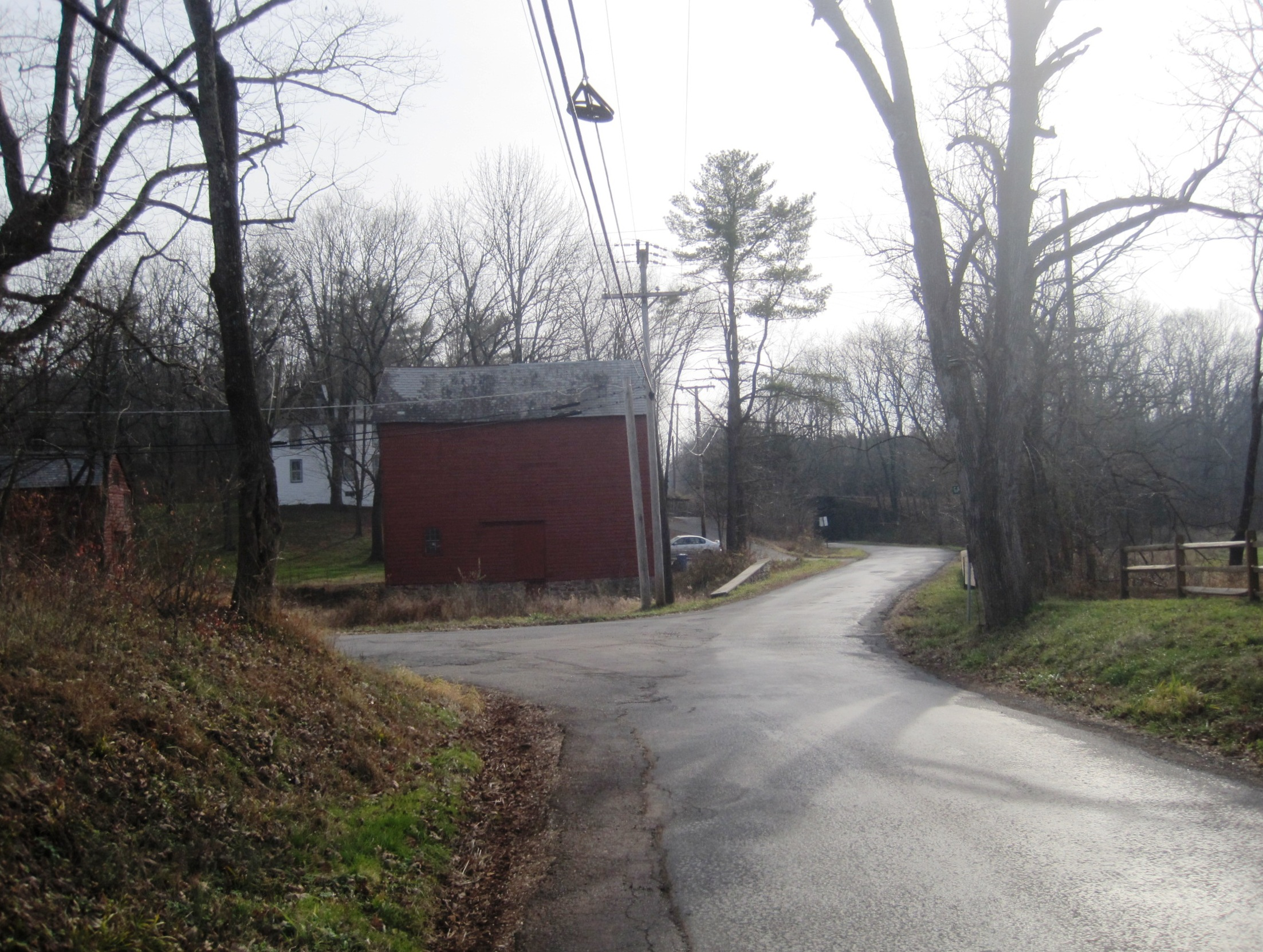 Photo of Bowne (also called Bowne Station), an unincorporated community at the tripoint of Delaware, East Amwell, and West Amwell Township, West Amwell townships in Hunterdon County, New Jersey. Photo taken at the intersection of Bowne Station Road and Garboski Road looking south.